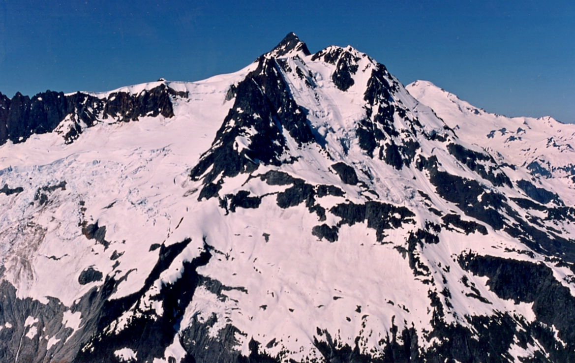 East Nooksack Glacier, West Nooksack Glacier, Price Glacier, and Nooksack Tower on Mount Shuksan's north aspect. Mount Baker behind Shuksan. Annotations on file. This view from summit of Ruth Mountain July 3, 1991.